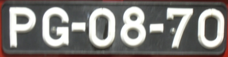 An old Portuguese license plate